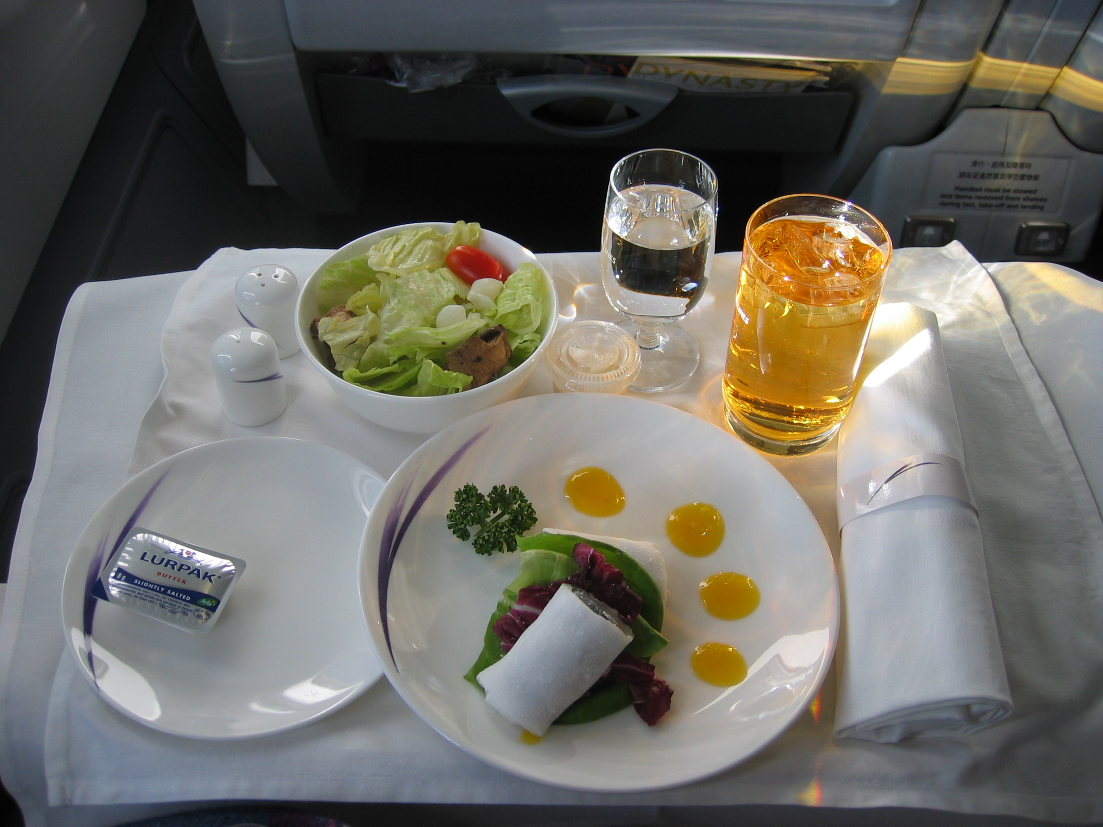 China Airlines Dynasty (Business) Class Supper: First Course